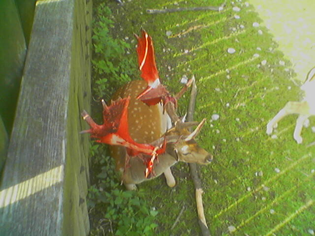 Fallow deer.Hirschgarten Munich.